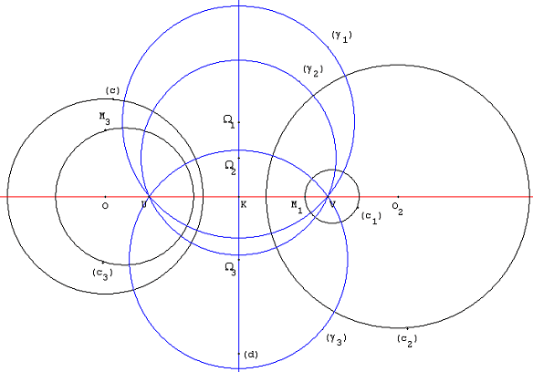 Beams of orthogonal circles